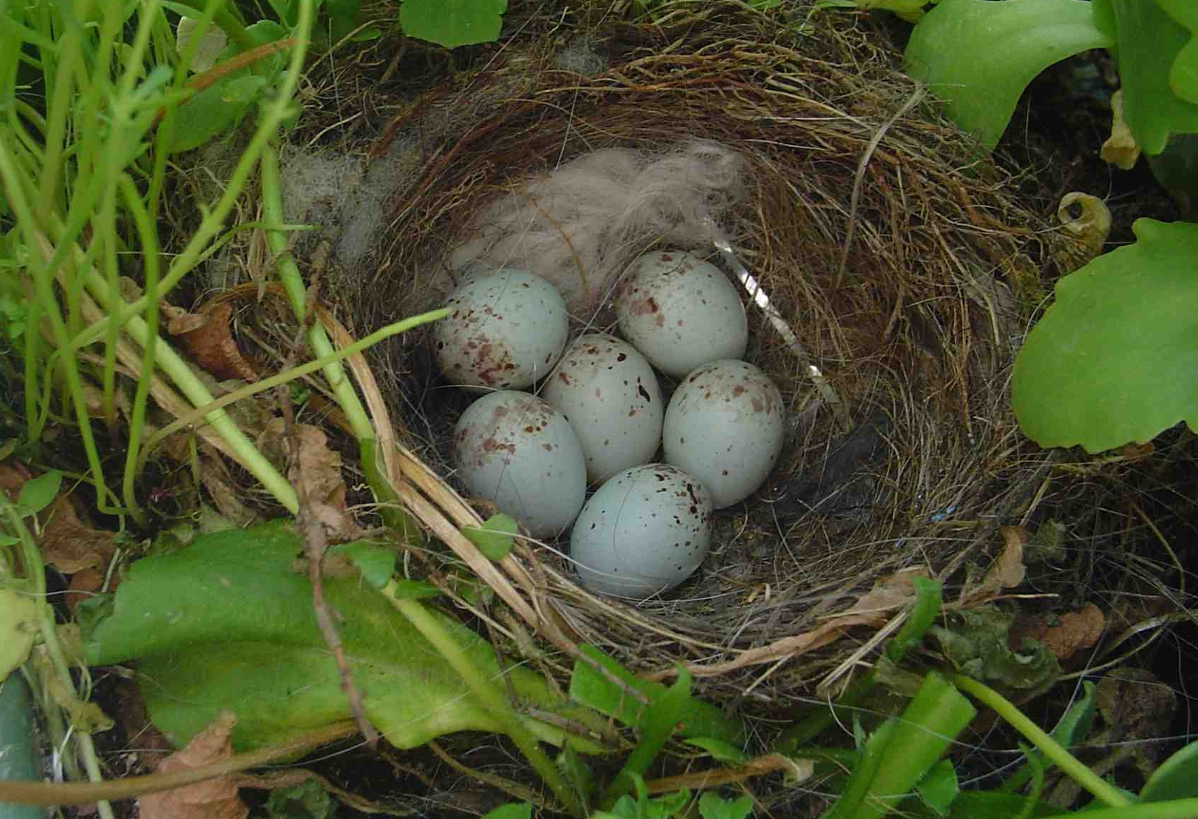 goldfinch's nest with eggs on the window sill of a Charlottenburg flat in Berlin, Germany (Carduelis carduelis)